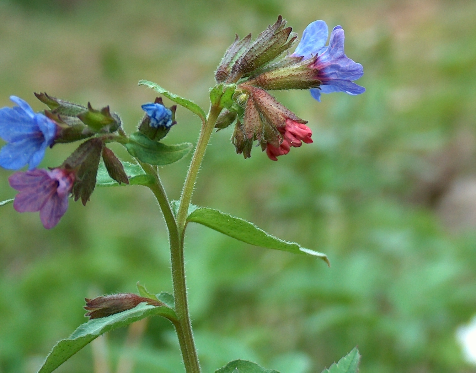 Dumort (Pulmonaria obscura) - Lemmenlaakso Nature Reserve, Järvenpää, Finland